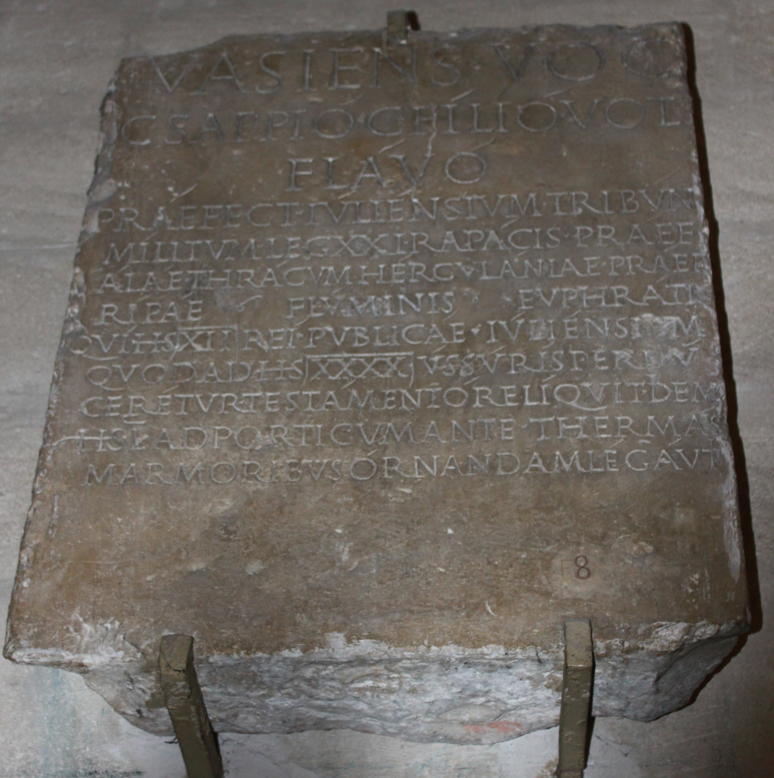 Ancient Roman inscription from Vaison-la-Romaine, now in the Musée Calvet (Avignon), it honored the Roman knight Gaius Sappius Flavus. Reference : CIL XII, 1357.